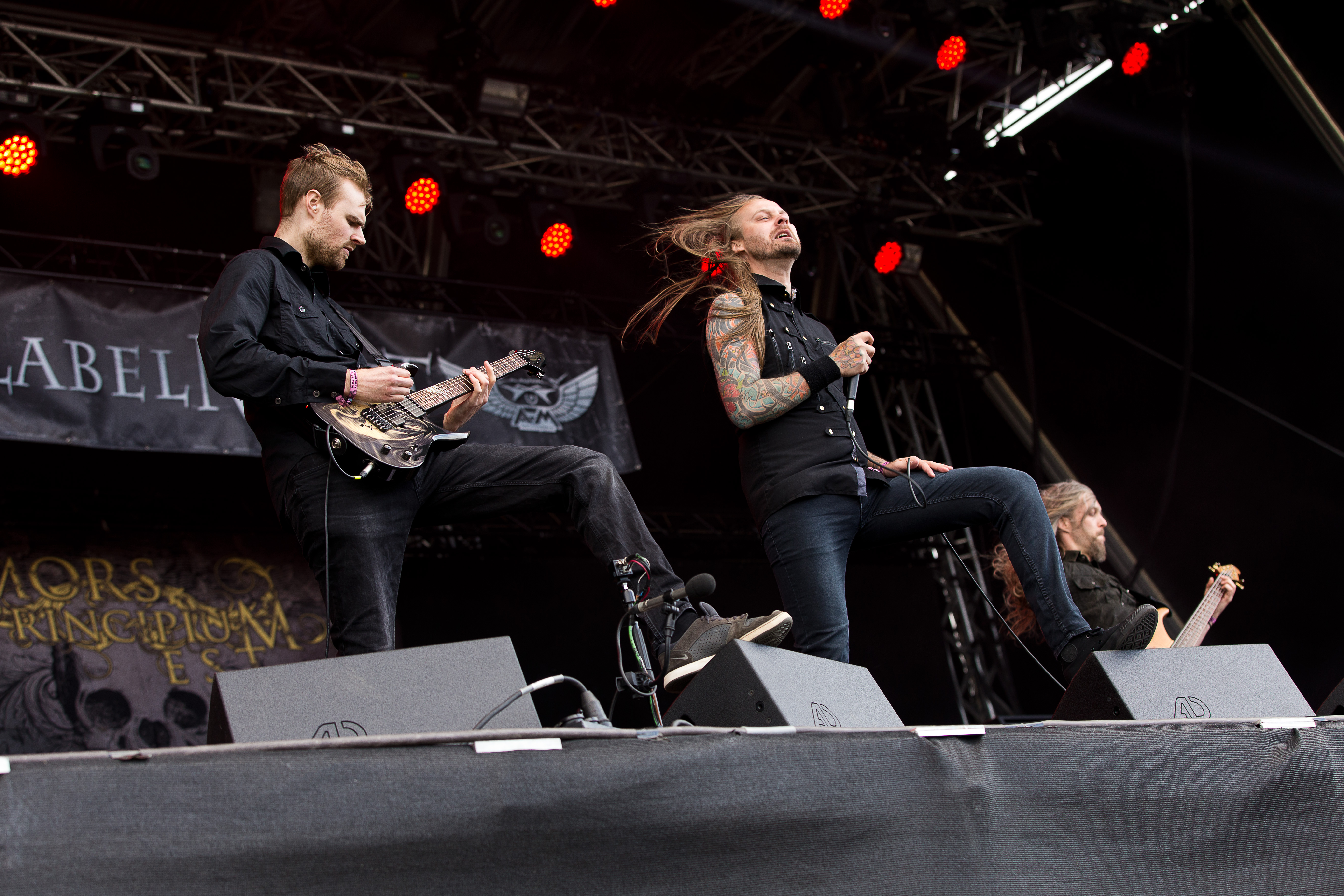 The Finnish melodic death metal band Mors Principium Est at the Rockharz Open Air 2016 in Ballenstedt/Germany.